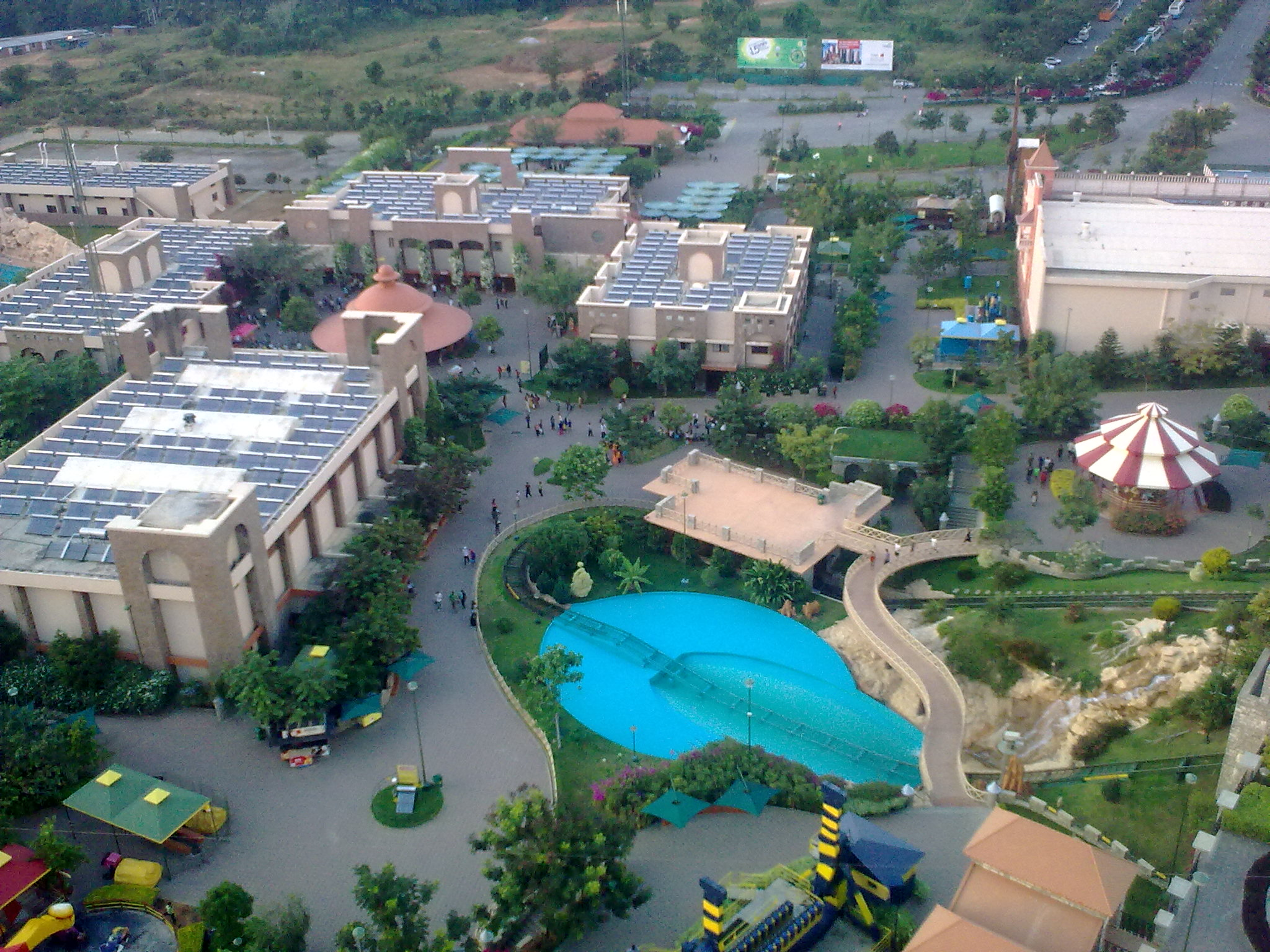 Aerial view of Wanderla, Bangalore.